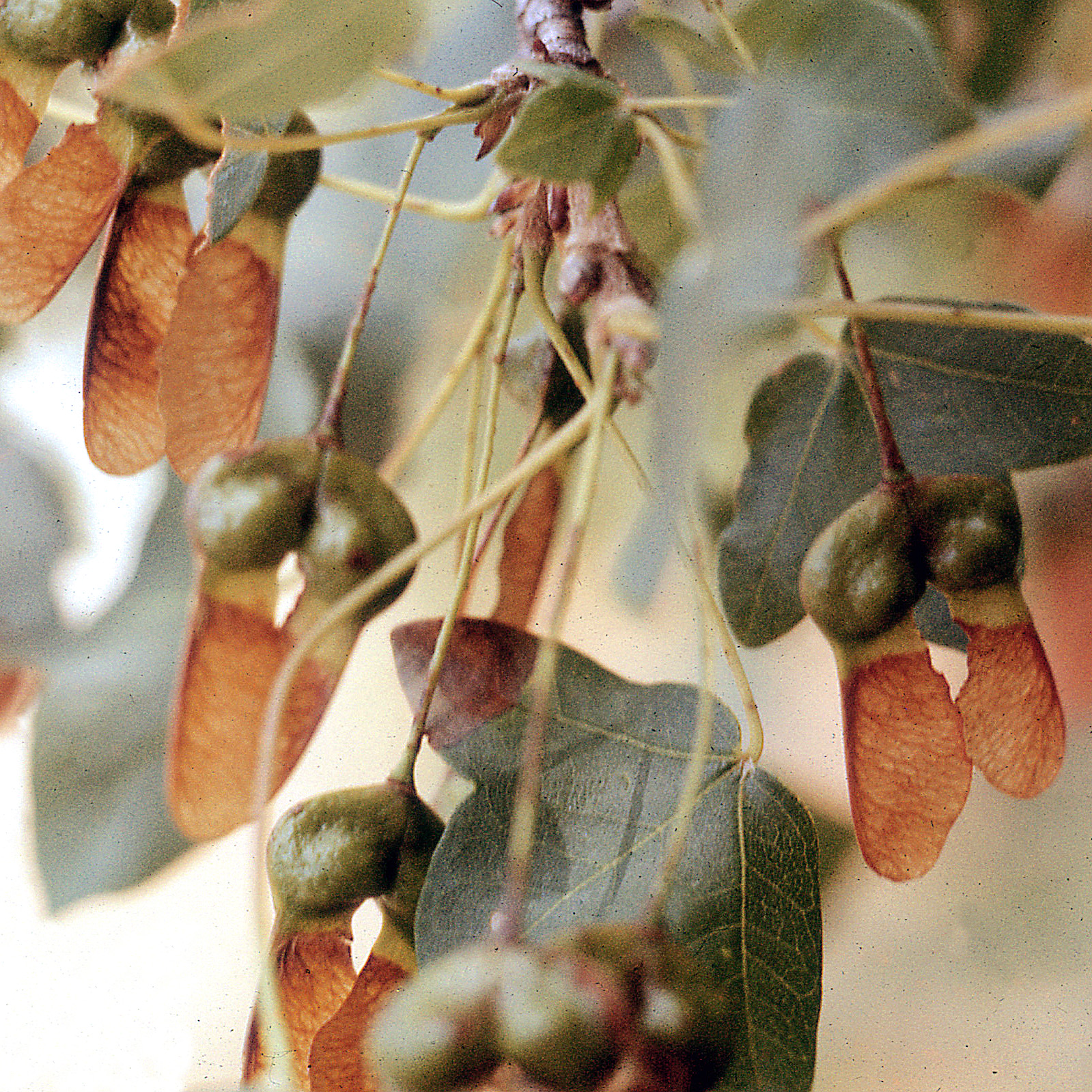 Acer monspessulanum leaves and fruits